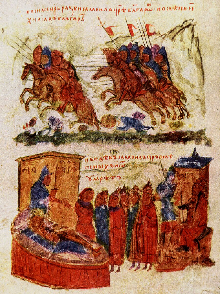 The Byzantines under emperor Basil II defeat the Bulgarians (top). Tsar Samuel dying in front of his blinded soldiers (bottom).